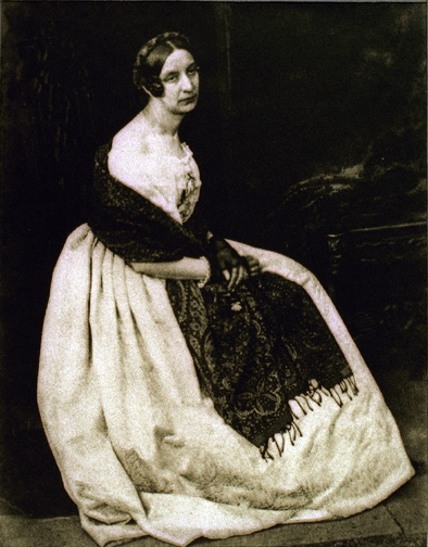 Elizabeth Eastlake (1809-1893), British author, art critic and art historian